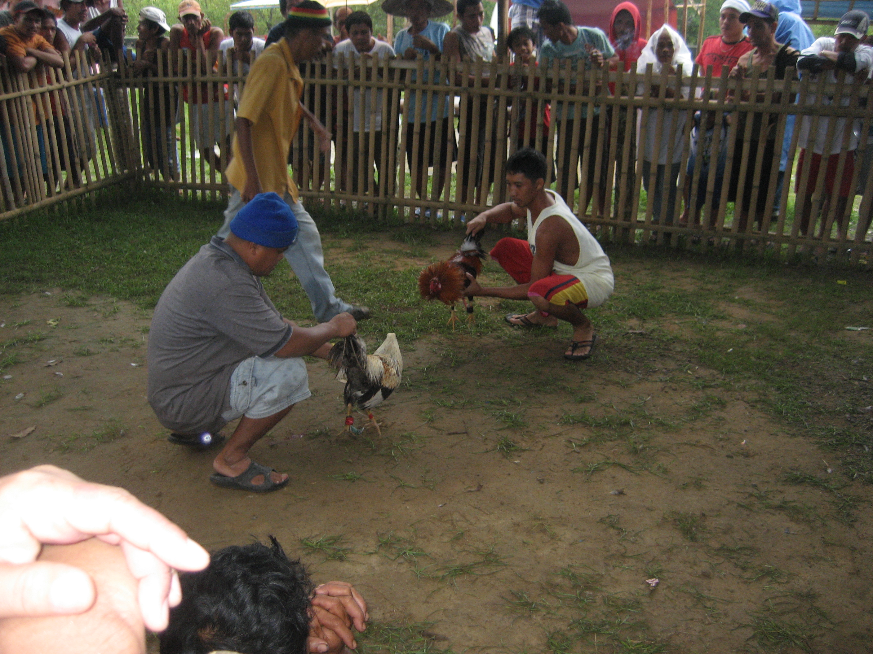 A cockfight in Iloilo, Philippines